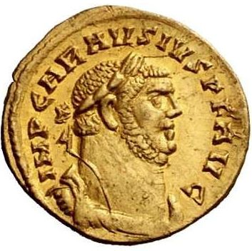 Carausius, AV aureus. London mint, 286-287, 4.20 g. IMP CARAVSIVS P F AVG, laureate, draped, cuirassed bust right. RIC 5; Depeyrot 2/5; Shiel 4; Calicó 4782.